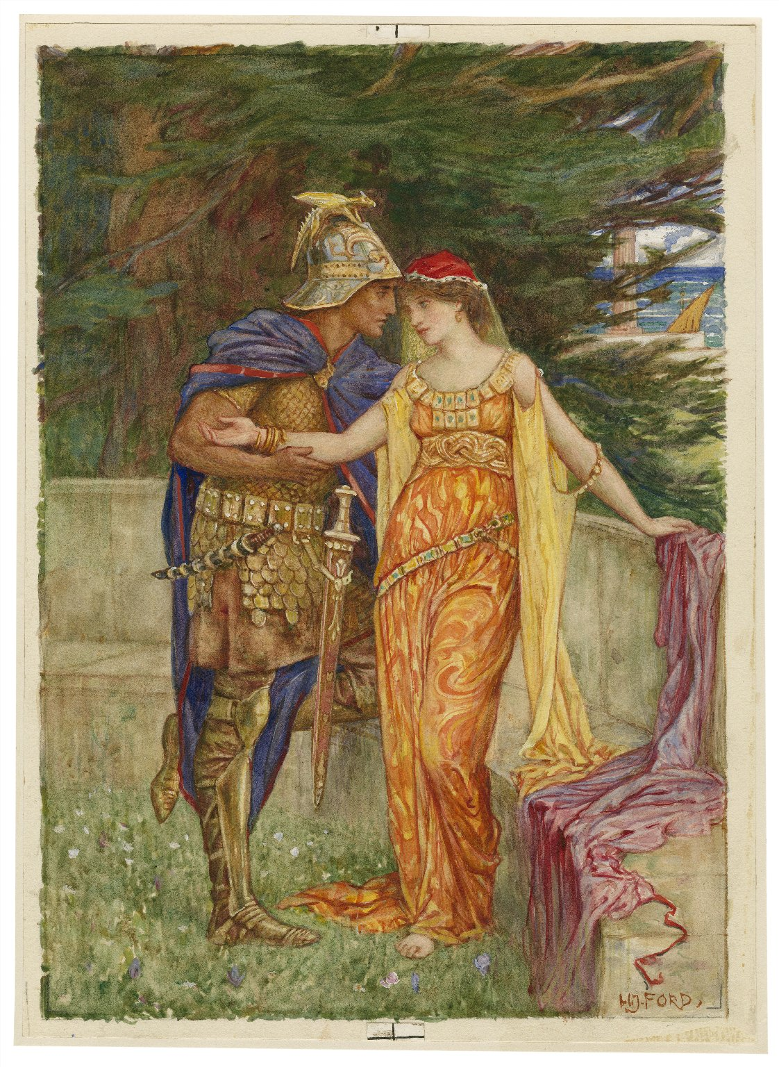 Watercolor of Posthumus and Imogen from Shakespeare's Cymbeline